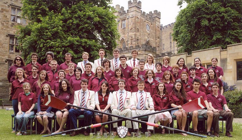 University College Boat Club 2008. Photo taken in Fellows Garden, Durham Castle.